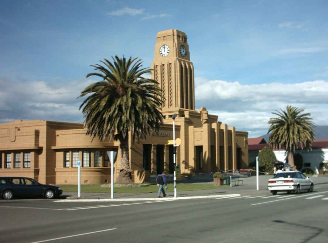 A civic building (Westport Municipal Chambers) in Westport, West Coast region of New Zealand, inspired by the Art Deco movement. With palm trees (Phoenix canariensis). New Zealand Historic Places Trust Register Category I; number: 5000.